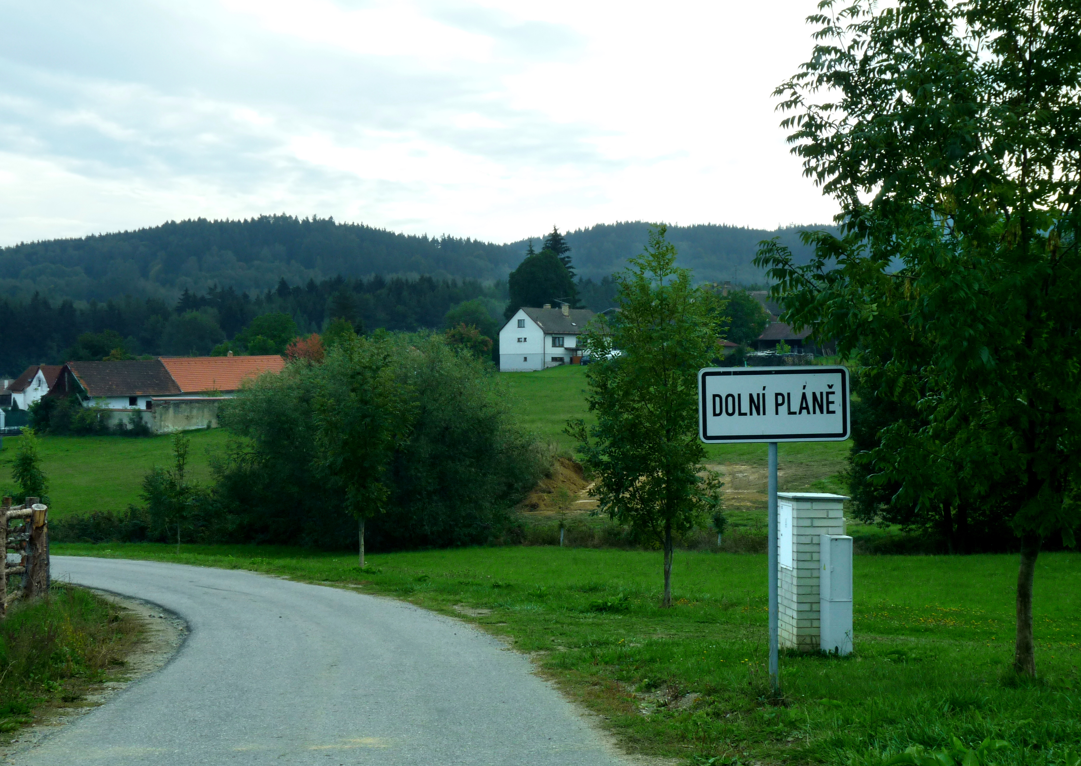 Western part of the village of Dolní Pláně, Český Krumlov District, South Bohemian Region, Czech Republic.